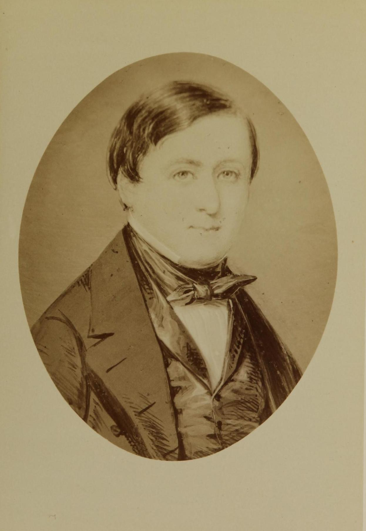 Author(s): Curwen, John, 1821-1901, author Publication: Warren, Pa. : E. Cowan & Co., printers, 1885 Language(s): English